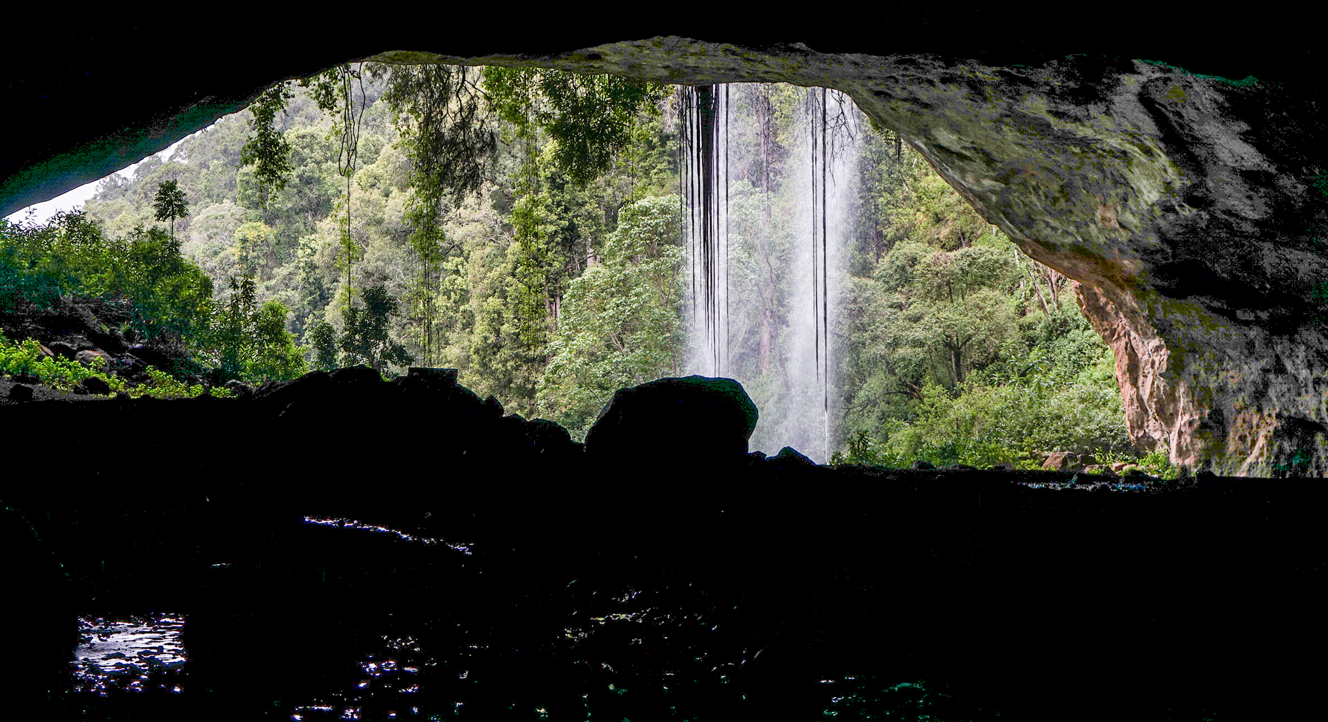 Mount Elgon National Park - Kitum cave